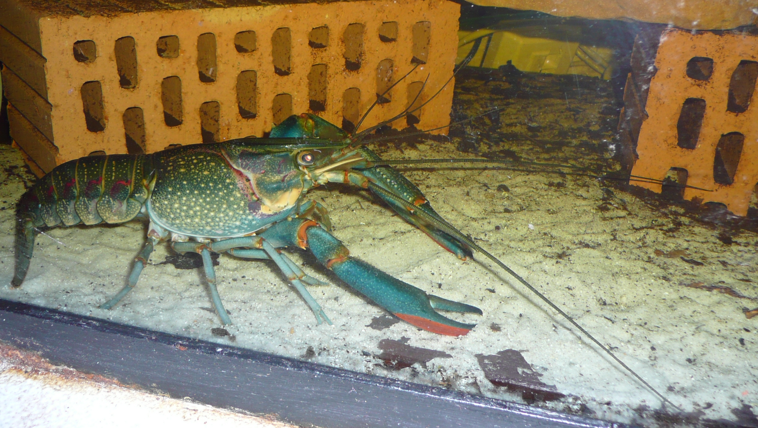 Cherax_quadricarinatus male